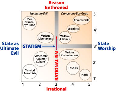 Pournelle chart colorized. Created in Adobe Illustrator by Jeremy Kemp, 1/11/05